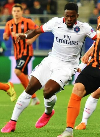 Serge Aurier